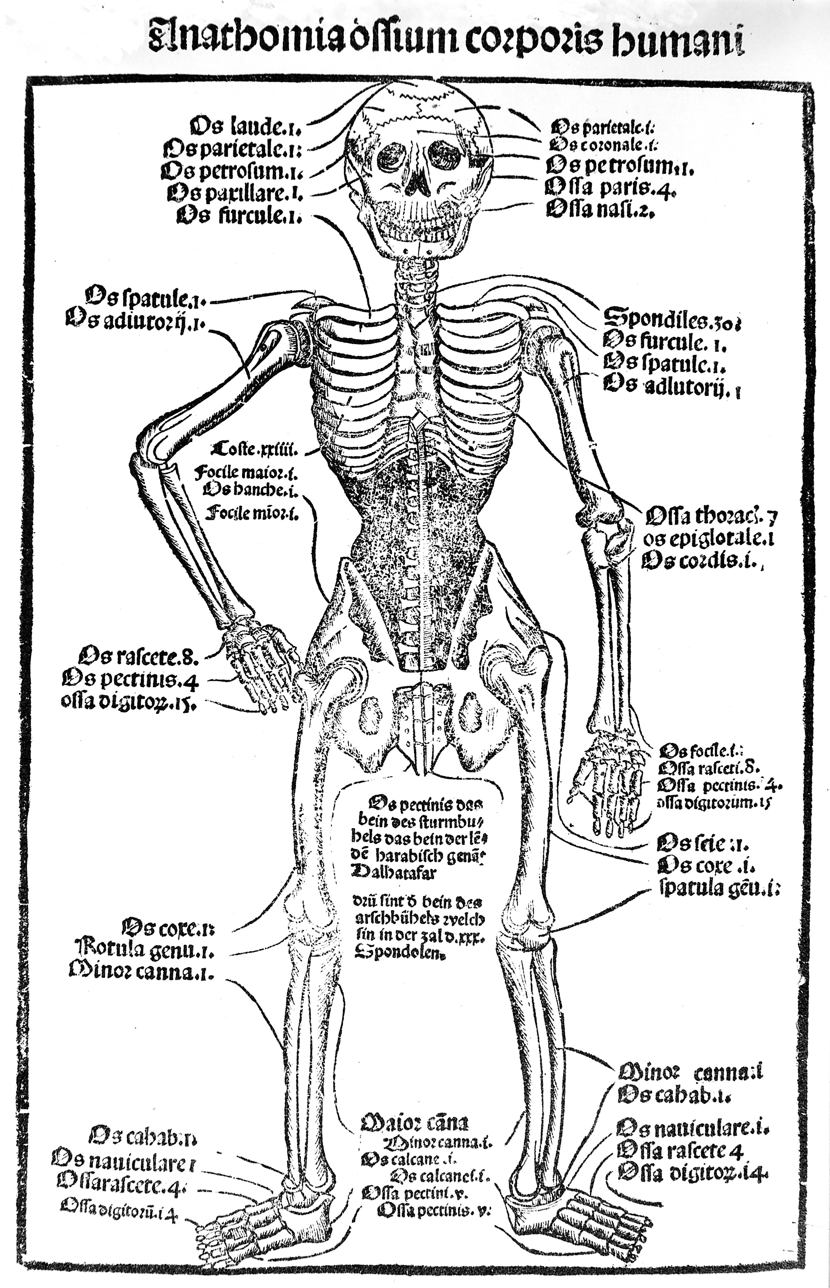 Skeleton General Collections Keywords: Hieronymus Brunschwig